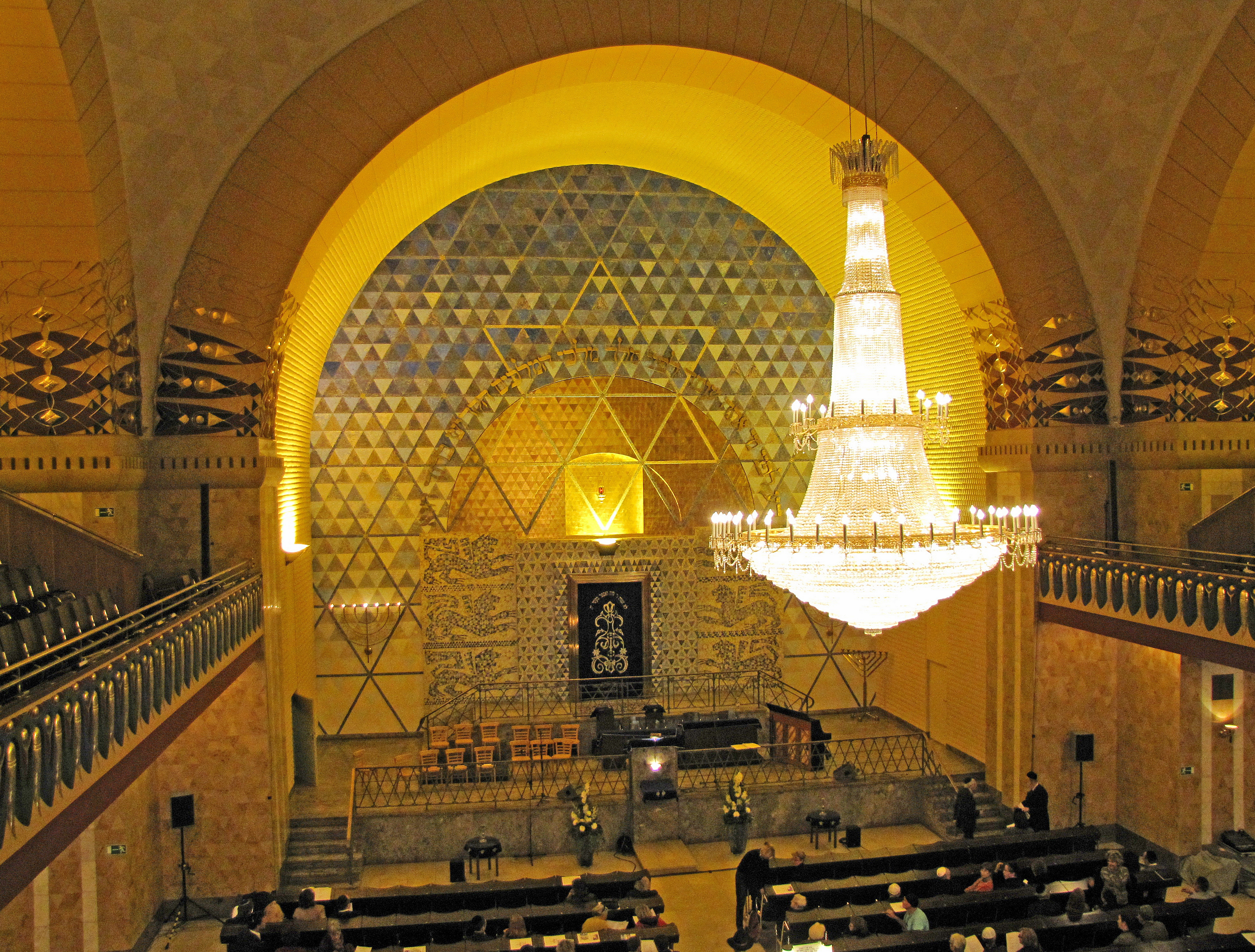 Front side (the main sanctuary) of the "Westend-Synagogue", Frankfurt am Main, Germany.